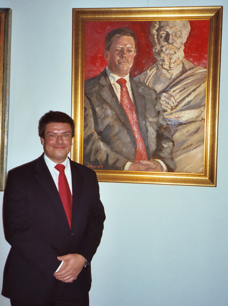 Per Andersson (born 1960), Swedish doctor of engineering, former president of Switchcore and chairman of Akademiska Föreningen (the Academic Society) in Lund. Andersson is standing next to a portrait of himself (painted by Johan Falkman) which was unveiled at a ceremony at Akademiska Föreningen in 2004.